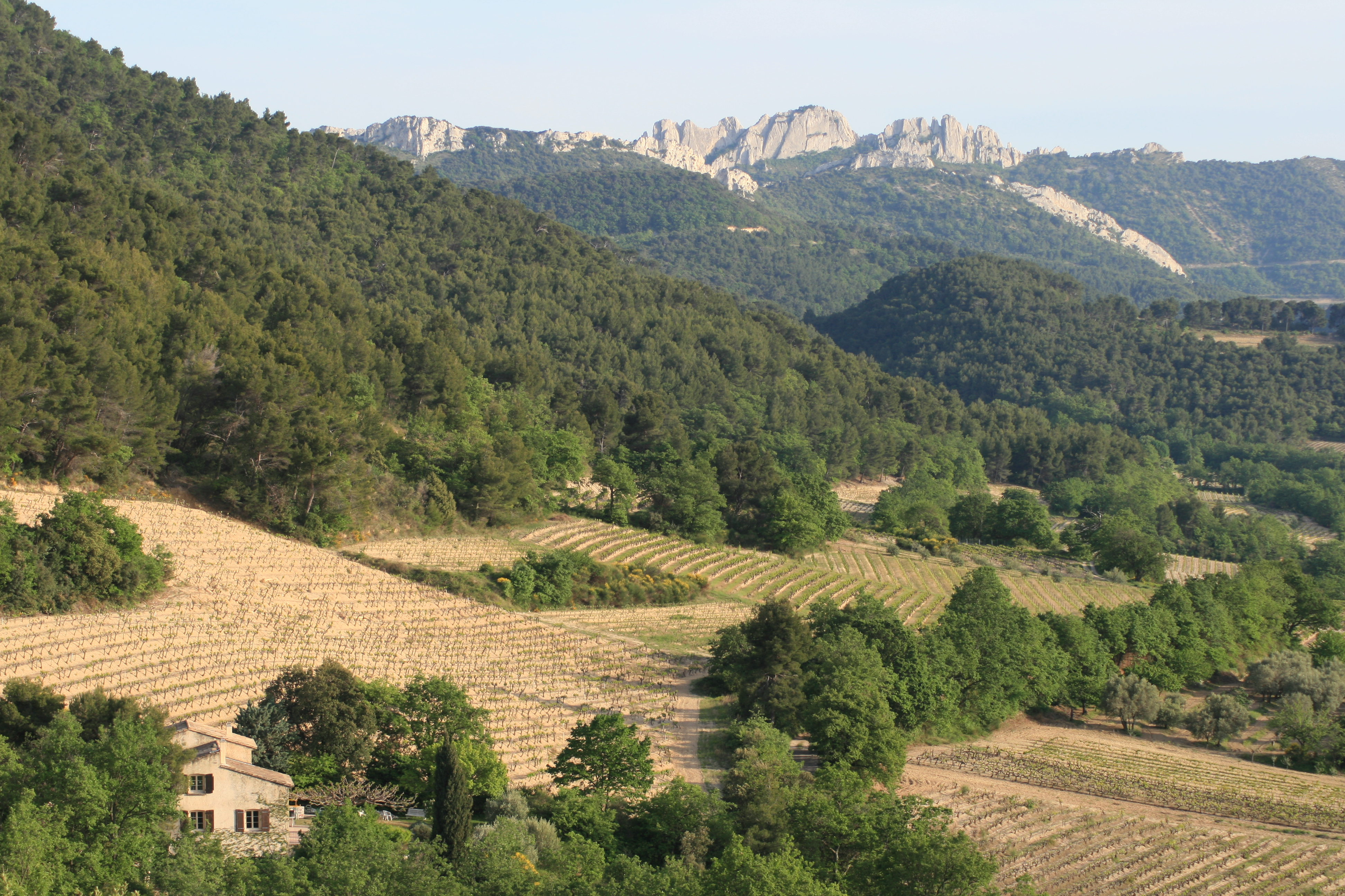 Vineyards in the French wine region of the Rhone Valley